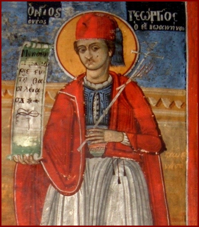 St George of Ionniana Lithia Kumanichevo 1850